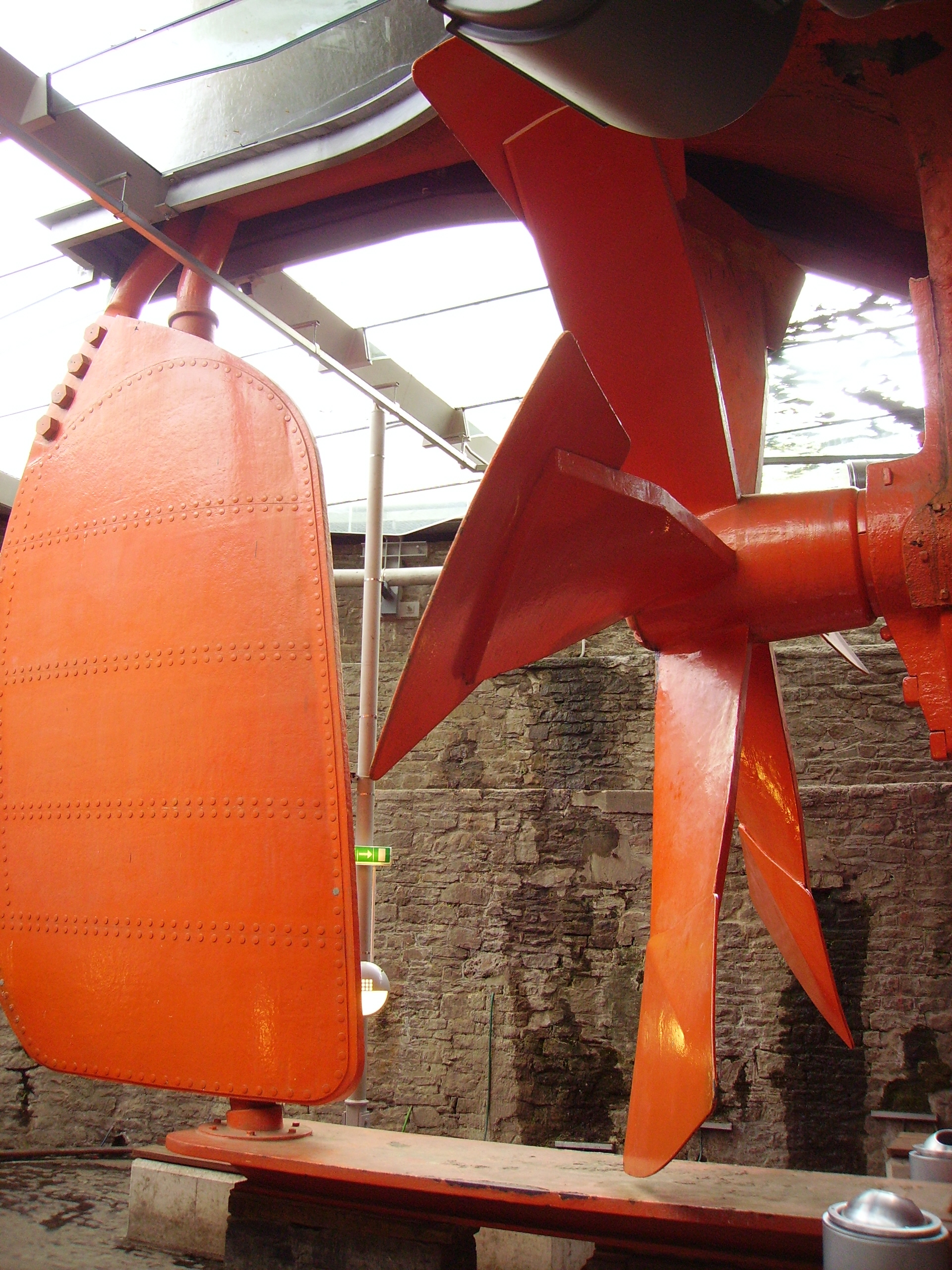 Photographer: User:Ballista